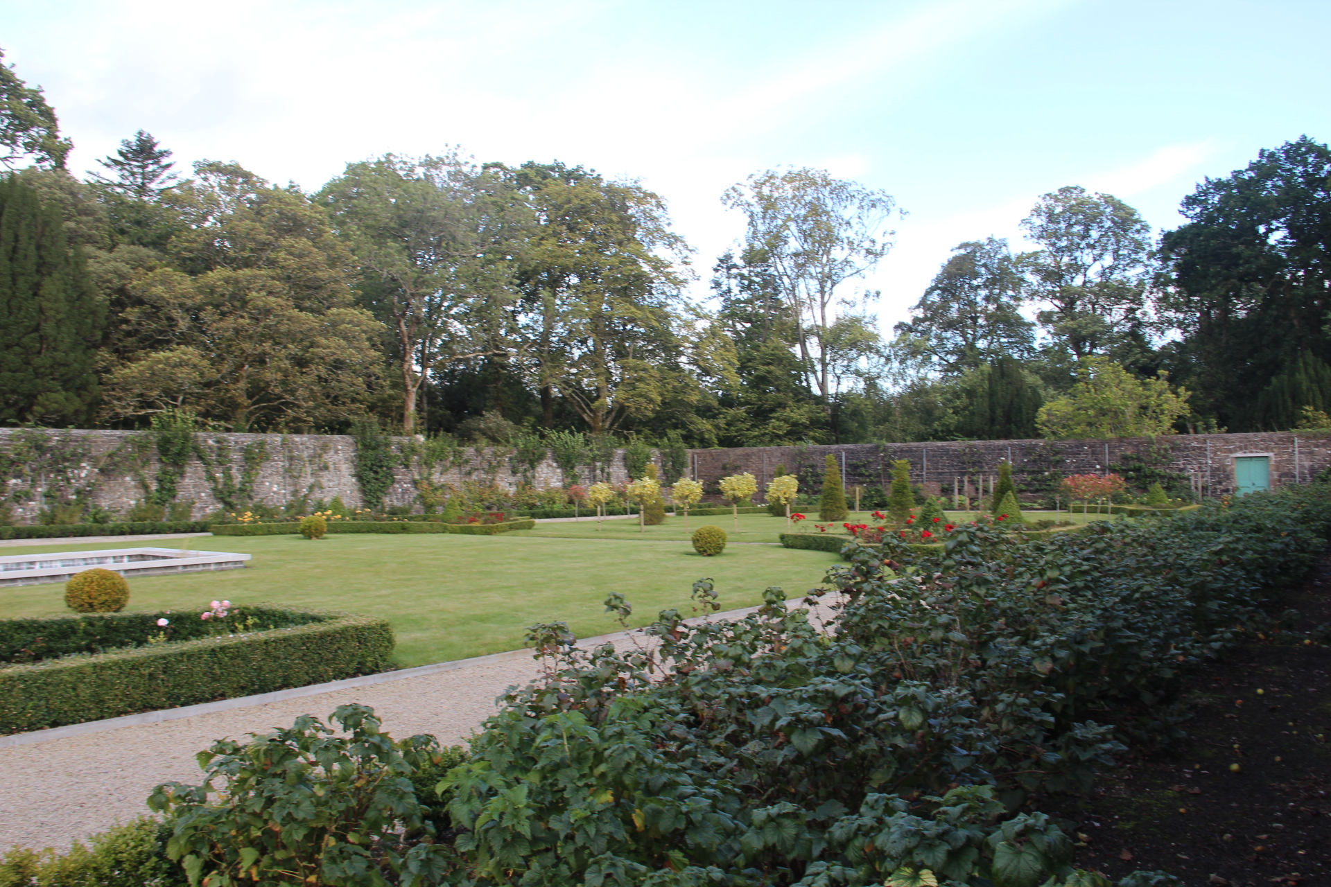 Upper walled garden.